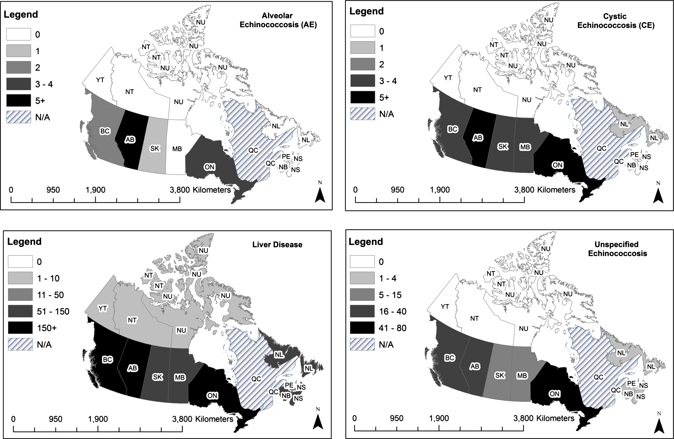 Figure 1 of paper. Distribution map by Province of Canadian hospital discharge data of Cystic Echinococcosis (CE), Alveolar Echinococcosis (AE), unspecified Echinococcosis and general liver diseases in Canada for the period 2001–2014. Data for Quebec were not available. Map by K. Berger, 2014.